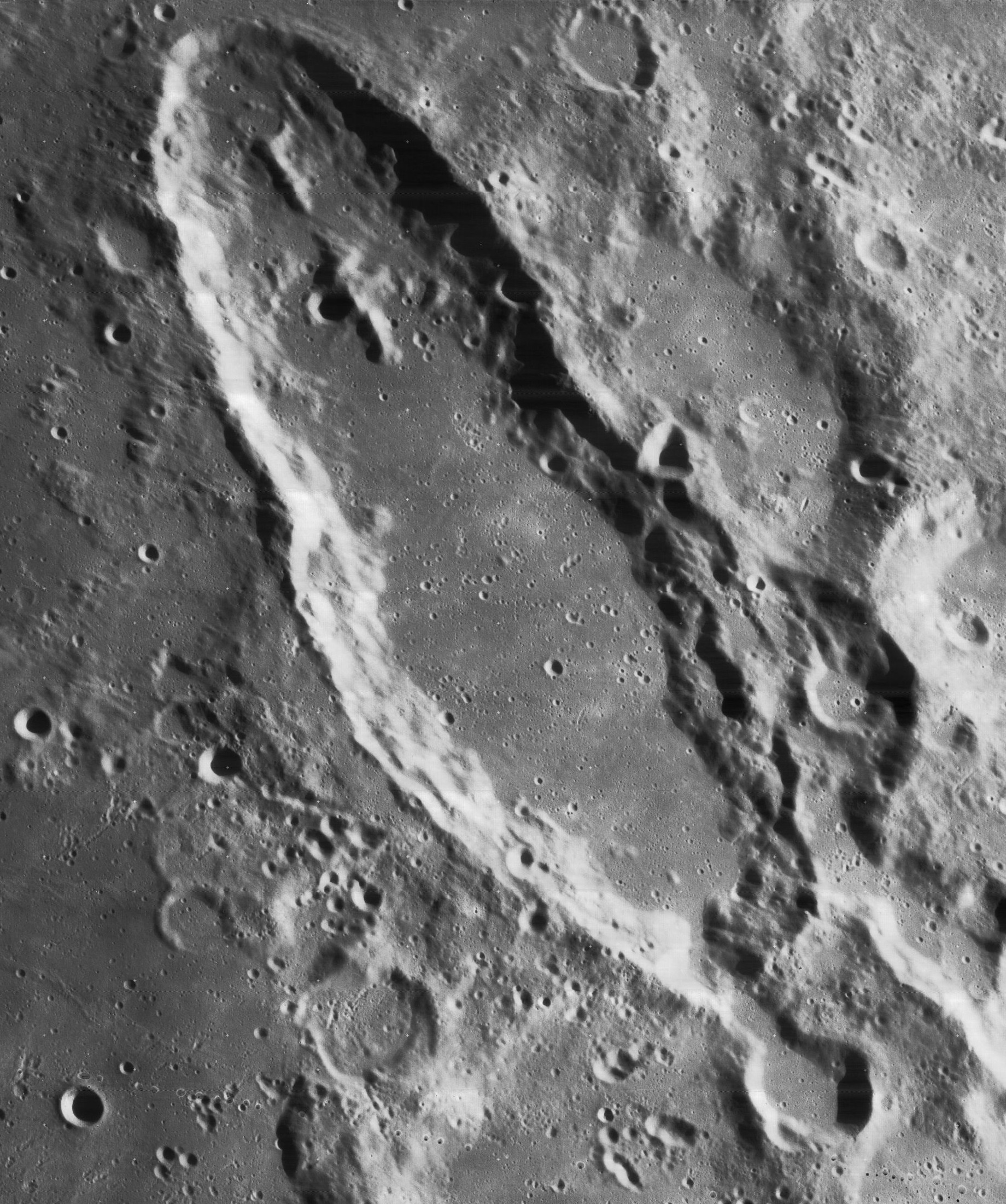 Slightly oblique view of crater Schiller on the Moon.